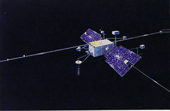 OGO-1 satelite on Earth's orbit - artist's vision.